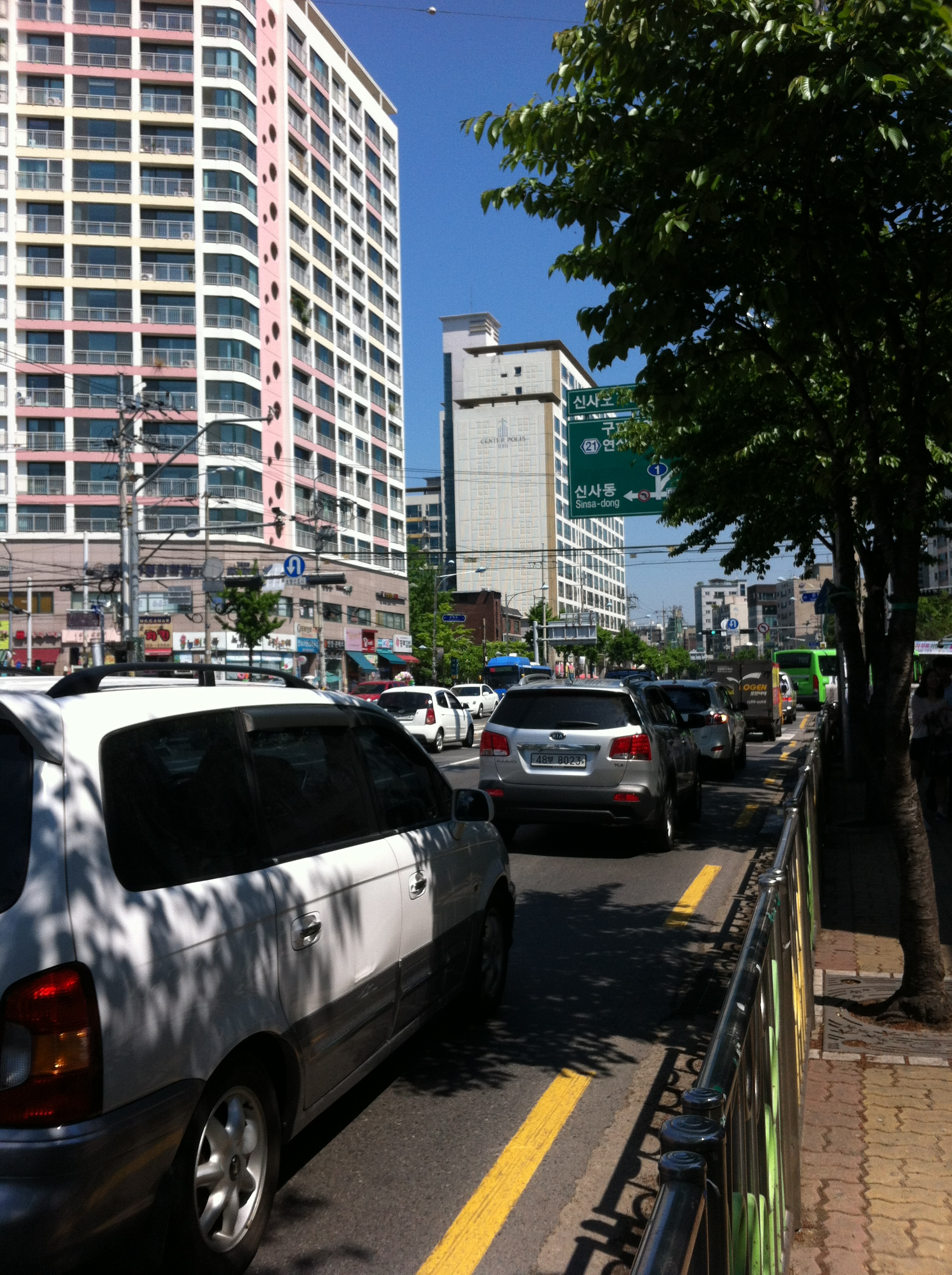 Bike ride, Seoul: May, 2014